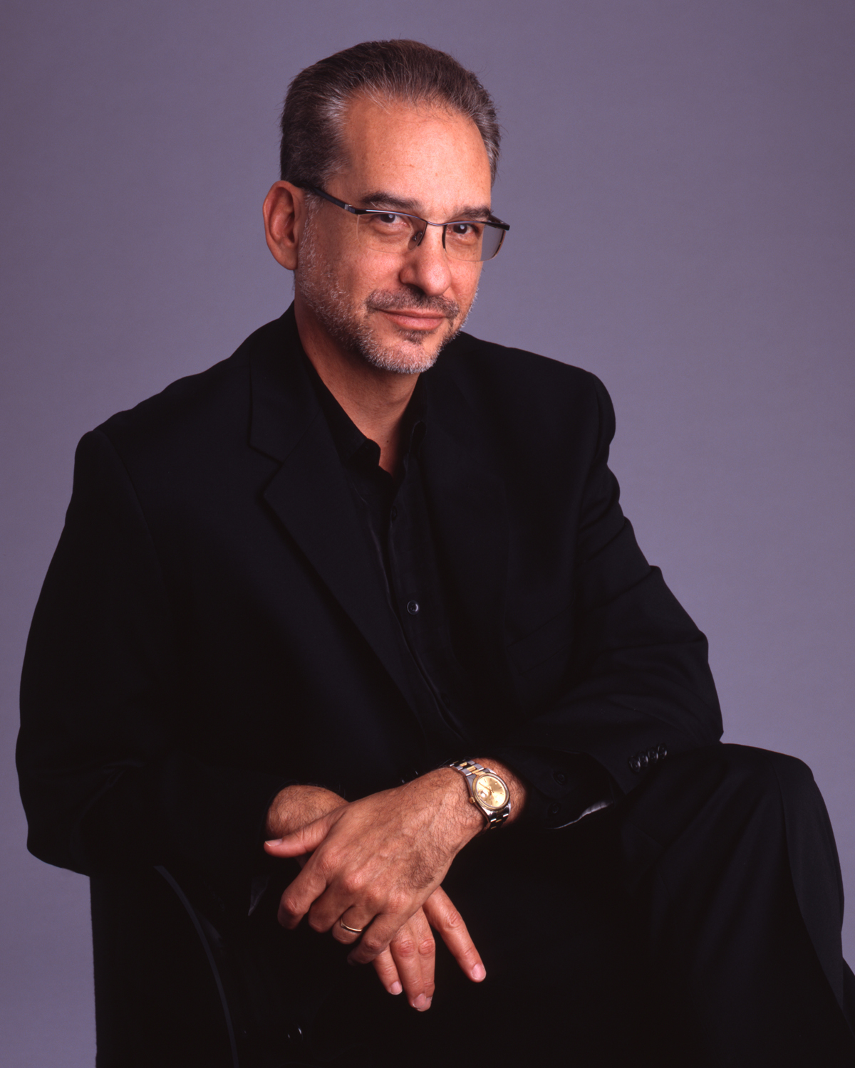 A recent picture of Randy Barnett